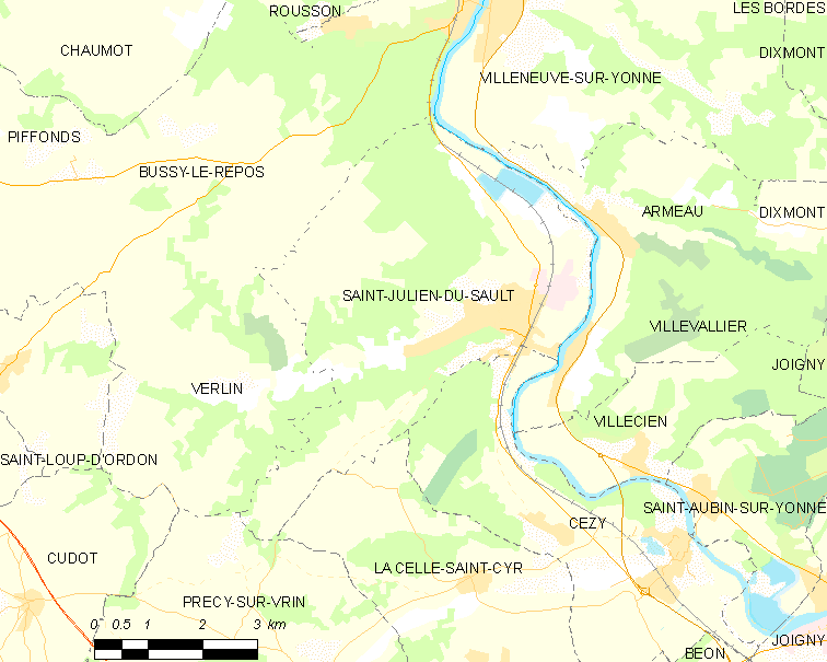 Map of French municipality Saint-Julien-du-Sault